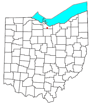 Locator map of the unincorporated community of Avery in Erie County, Ohio, United States.